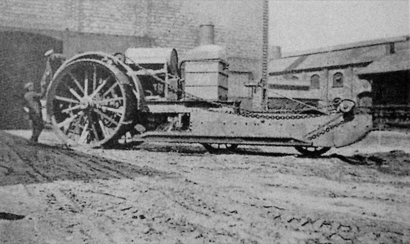 Tritton Trench Crosser 1915 (United Kingdom) Tritton_Trench_Crosser_1915